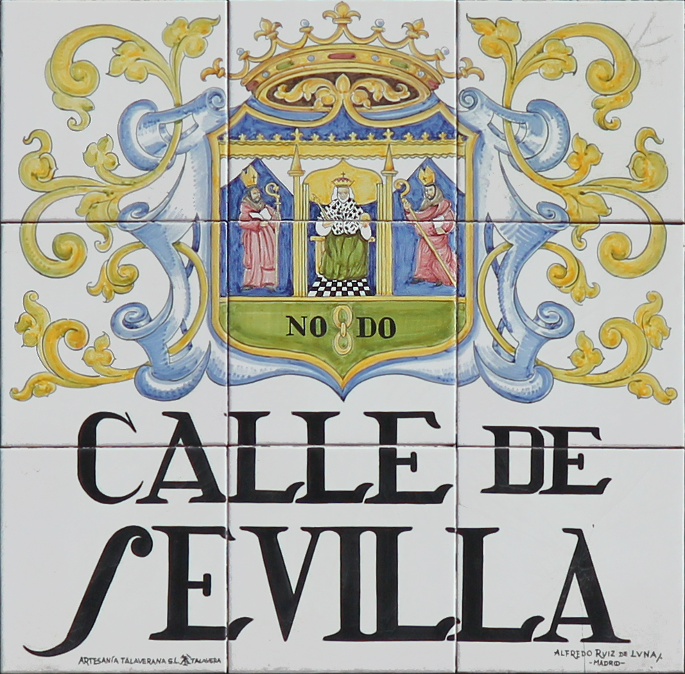 Sign of Calle de Sevilla (street) in Madrid (Spain).